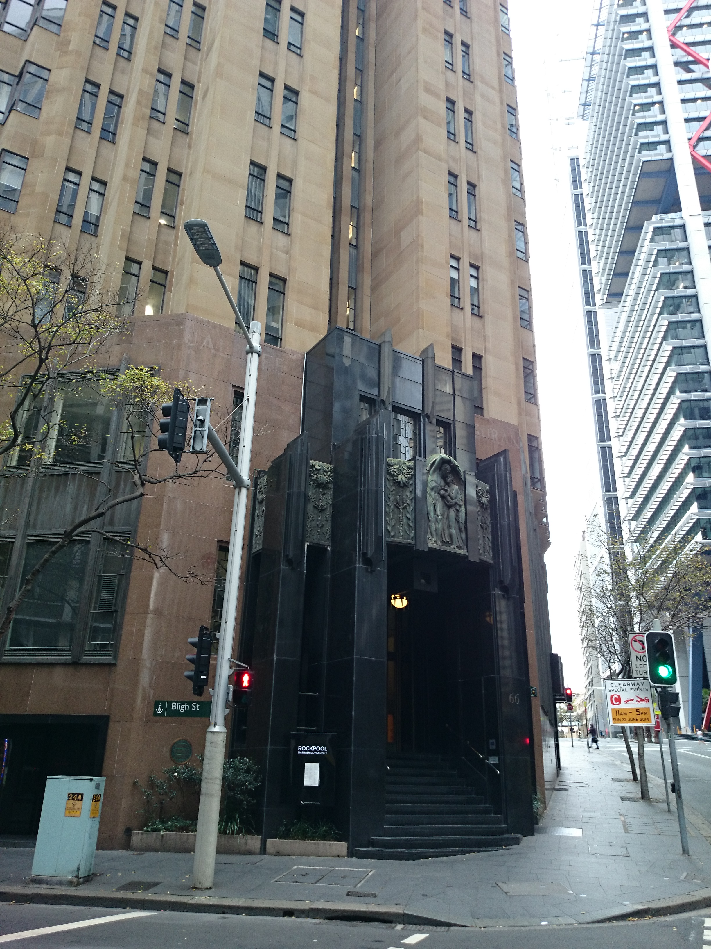 City Mutual Building on the corner of Bligh and Hunter Streets in the Sydney CBD. New South Wales, Australia